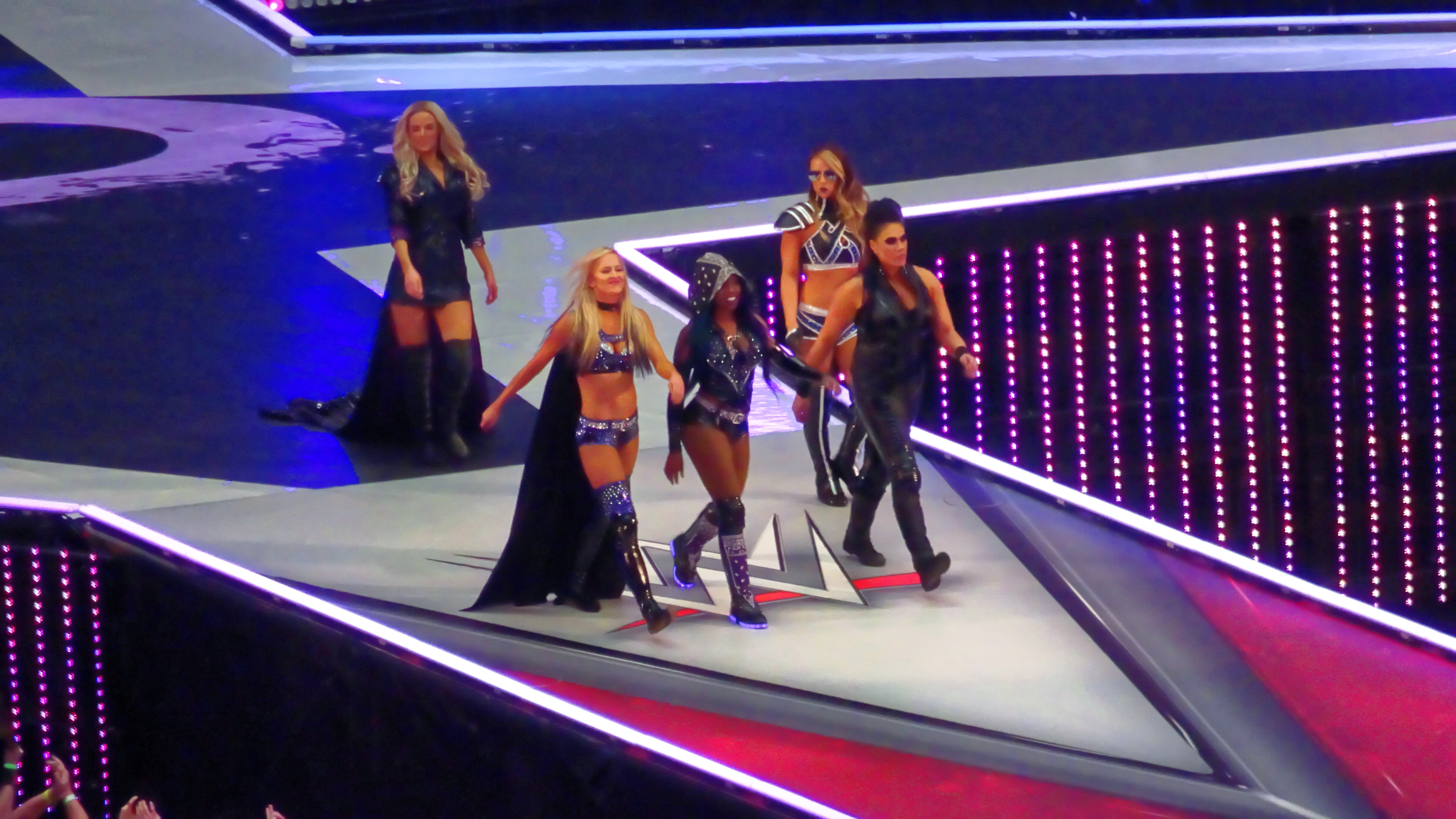 WrestleMania 32 was the thirty-second annual WrestleMania professional wrestling pay-per-view (PPV) event produced by WWE. It took place on April 3, 2016, at AT&T Stadium in Arlington, Texas. Twelve matches were contested on the card (with three matches occurring on the WrestleMania Kickoff pre-show - two airing live on the USA Network, which televised the second hour of the pre-show). Alicia Fox & Brie Bella & Eva Marie & Natalya & Paige def. (sub) Emma & Lana & Naomi & Summer Rae & Tamina (in 11:26) Type of match : dark 10-person tag Rating : **1/4